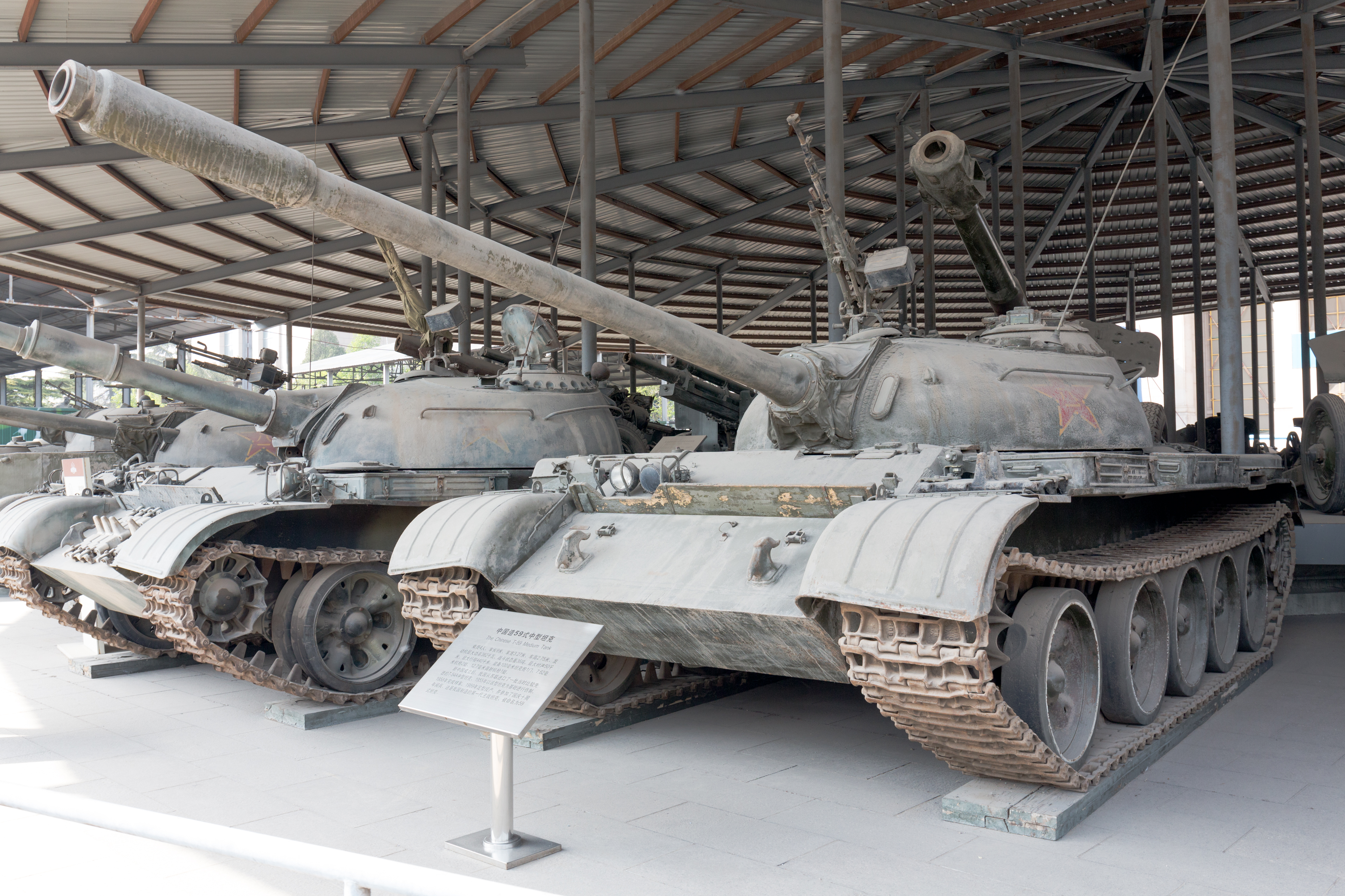 Type 59 medium tank